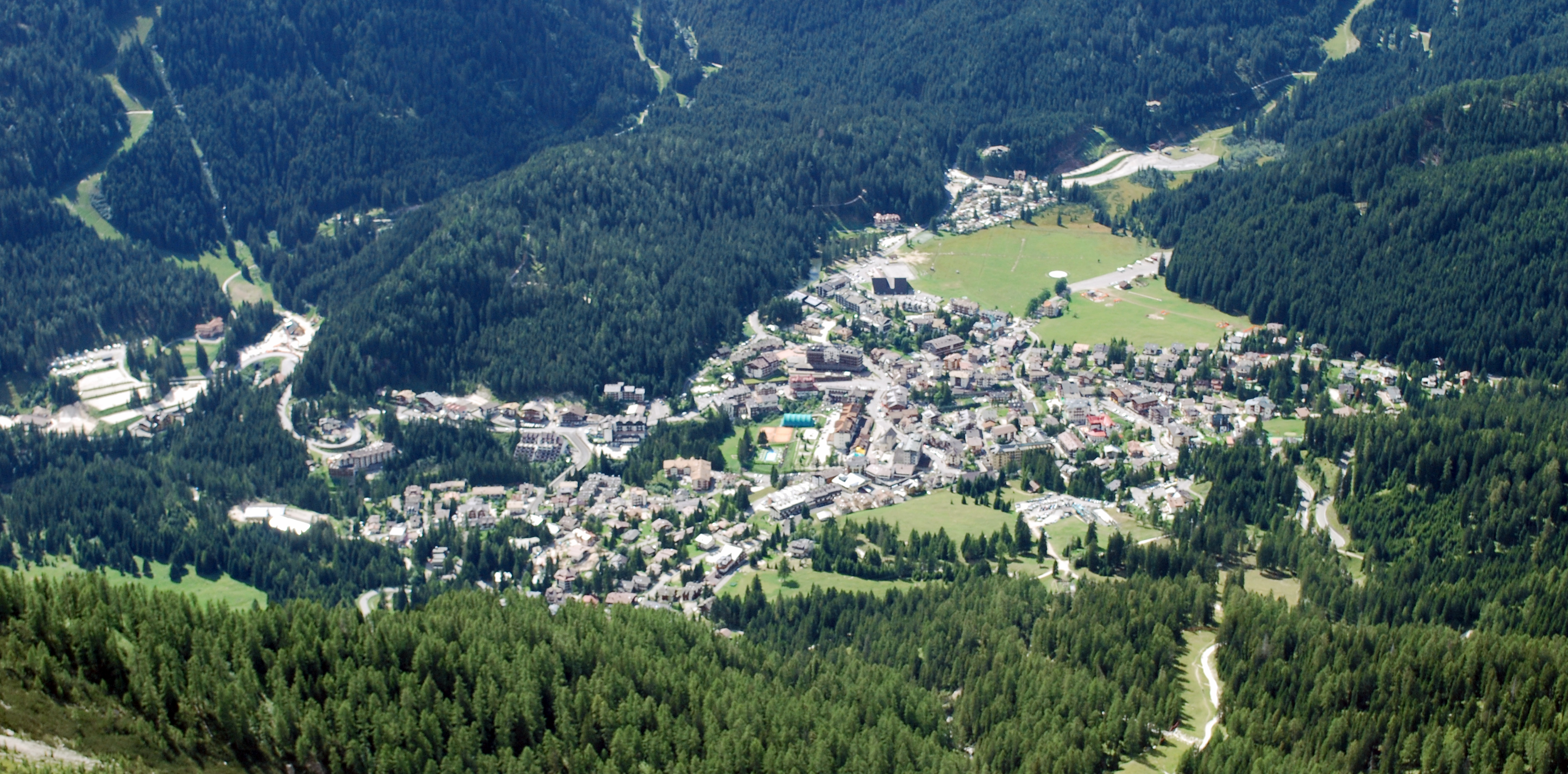 San Martino from E